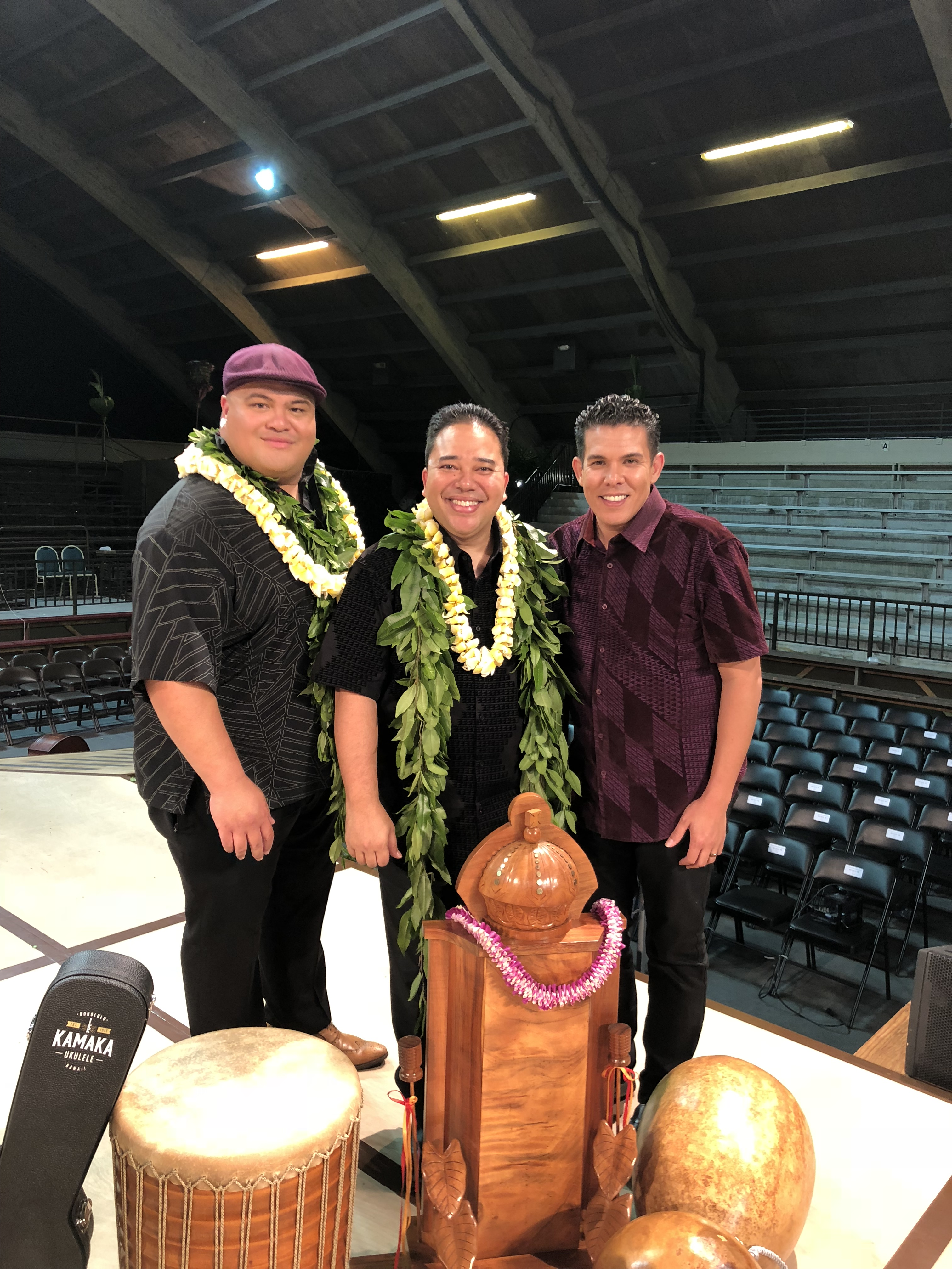 Kalani Pe'a and Hula Halau O Kamuela Merrie Monarch 2019 Overall Winners - Lokalia Montgomery Perpetual Trophy